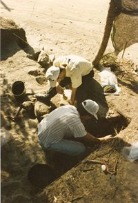 Archeology